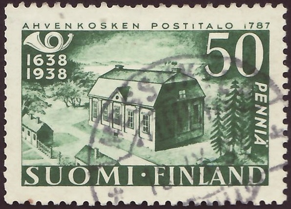 Stamp of Finland; 1938; commemorative stamp of the special issue to the 300th anniversary of the establishment of the Finnish postal service (Posti); post office building in Ahvenkoski (Kymenlaasko region); postmarked in Messukylä, 1939 Stamp: Michel: No. 213; Yvert & Tellier: No. 205; AFA: No. 220; Scott: No. 215 Color: green Watermark: none Nominal value: 50 PENNIÄ Postage validity: from 6 September 1938 until 31 December 1962 date QS:P,+1950-00-00T00:00:00Z/7,P580,+1938-09-06T00:00:00Z/11,P582,+1962-12-31T00:00:00Z/11 Postmark: Messukylä (contemporary a suburb of Tampere), 18 September 1939 (two-circle postmark with passing through date fess; great size; 29 mm outer circle, with striped inner area (11 slim stripes))